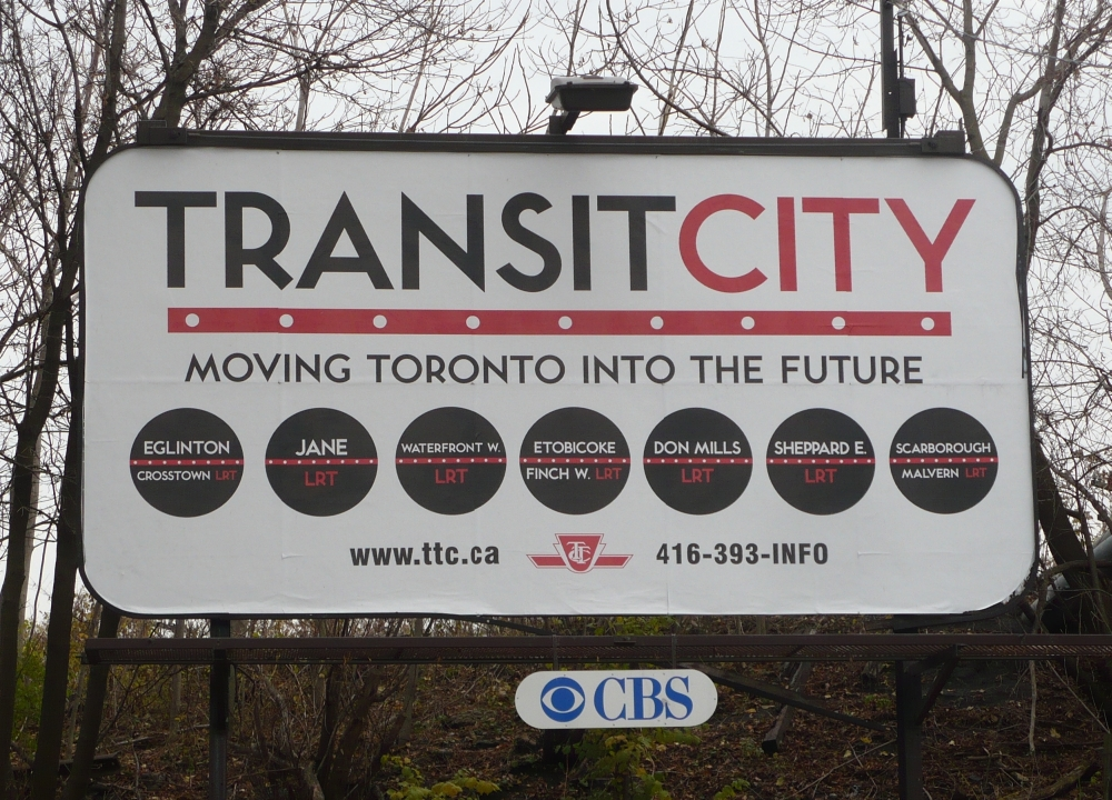 "Transit City" billboard promoting proposed LRT expansion in Toronto by the TTC